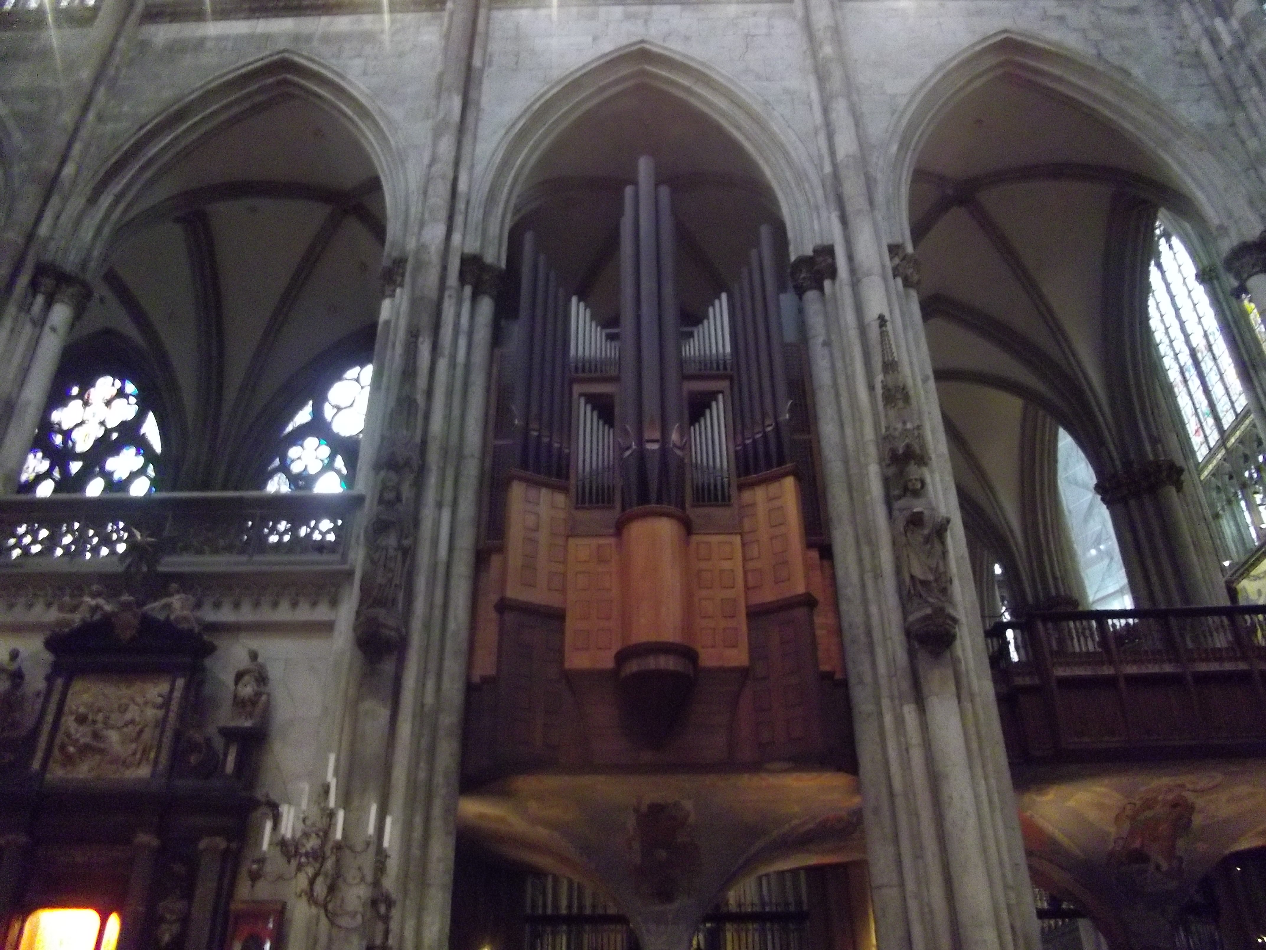 Great organ of cologne cathedral